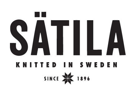 Sätila of Sweden logotype